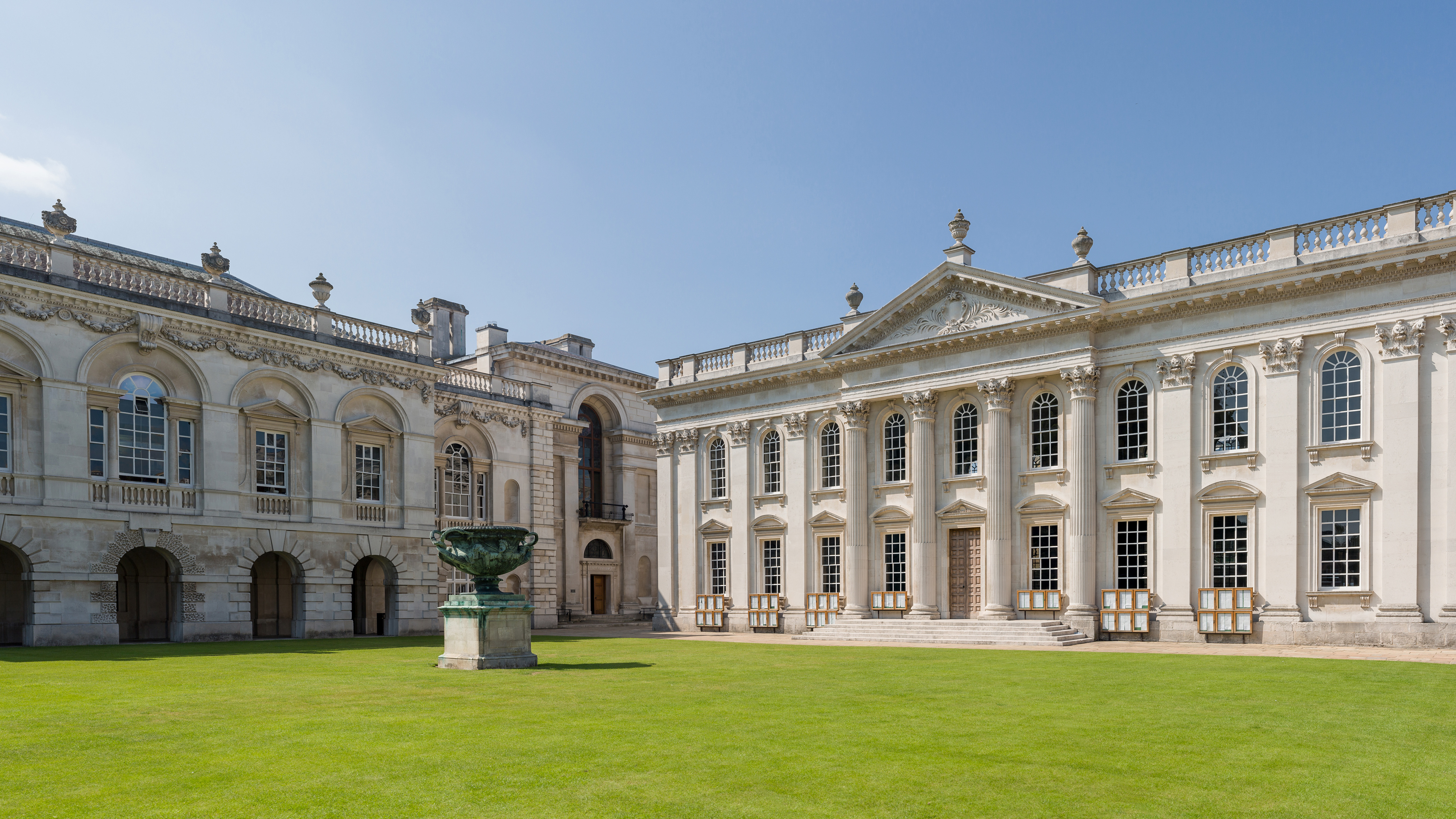 Old Schools looking north-west from Kings Parade, Cambridge, England.